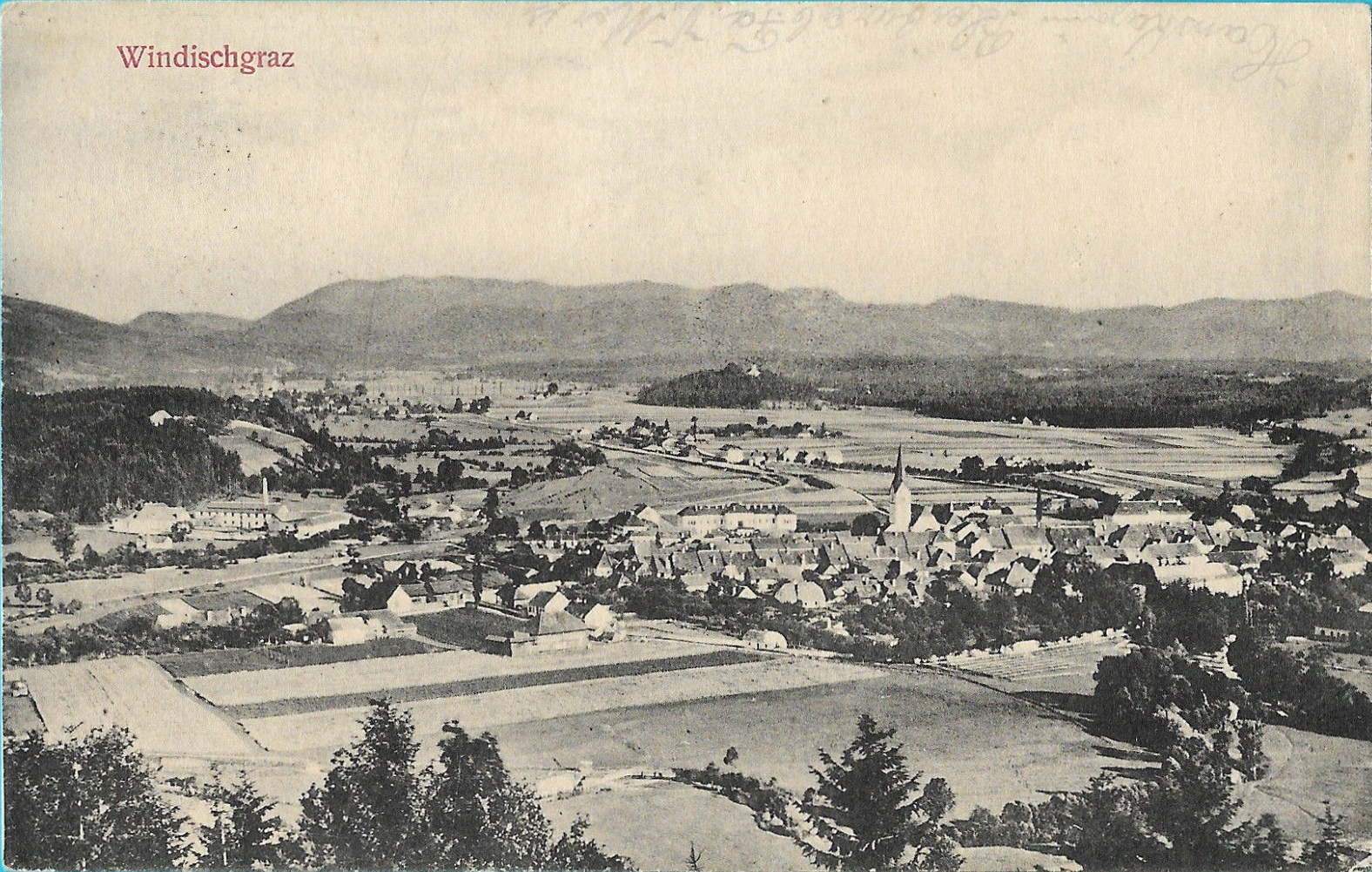 Postcard of Slovenj Gradec.